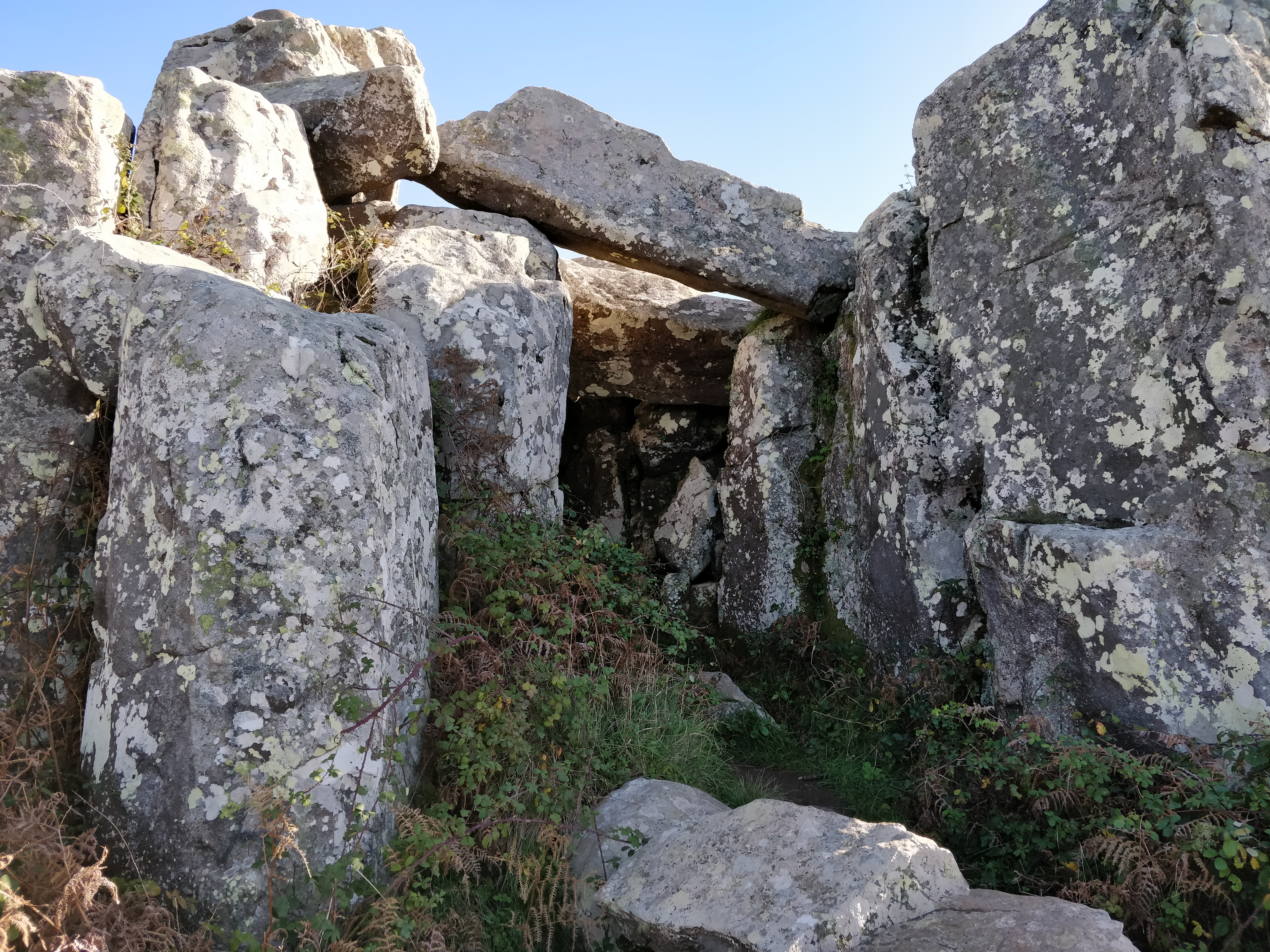 Anta de Adrenunes, a megalithic dolmen near Sintra, Portugal, showing the passageway believed to have formed a necropolis